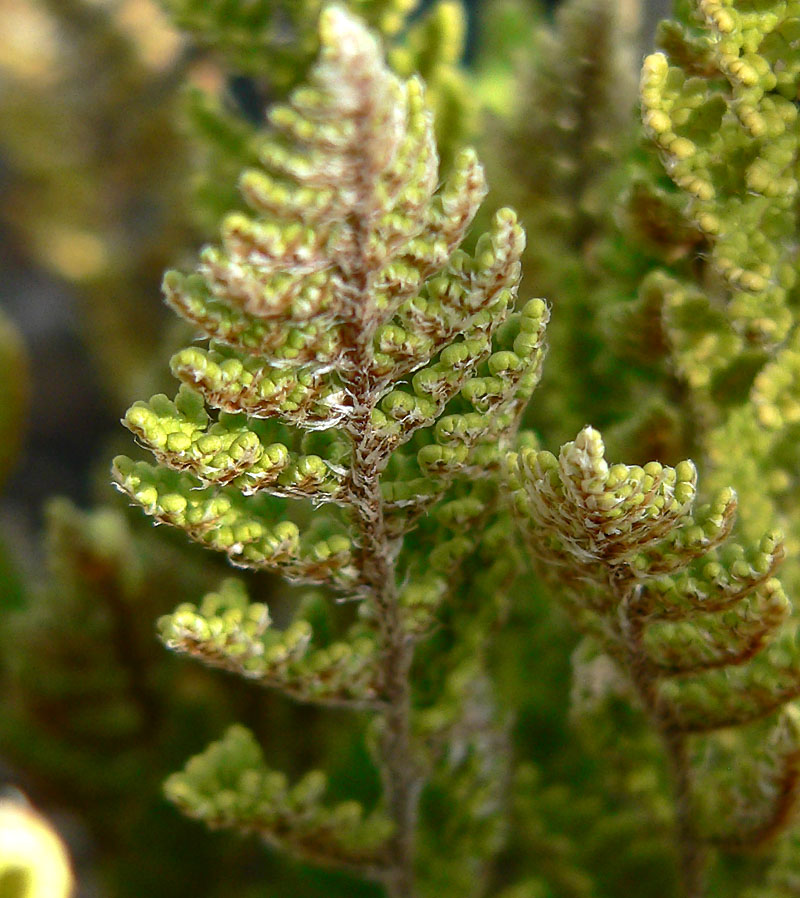 Cheilanthes fendleri at the University of California Botanical Garden, Berkeley, California